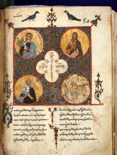 A folio from the Georgian MSS of the Gospels - the Jruchi Codex II.